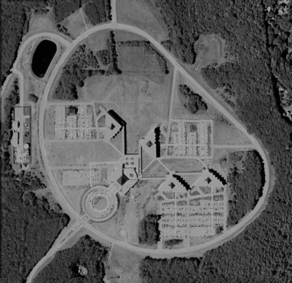 Aerial image of the IBM Somers Office Complex